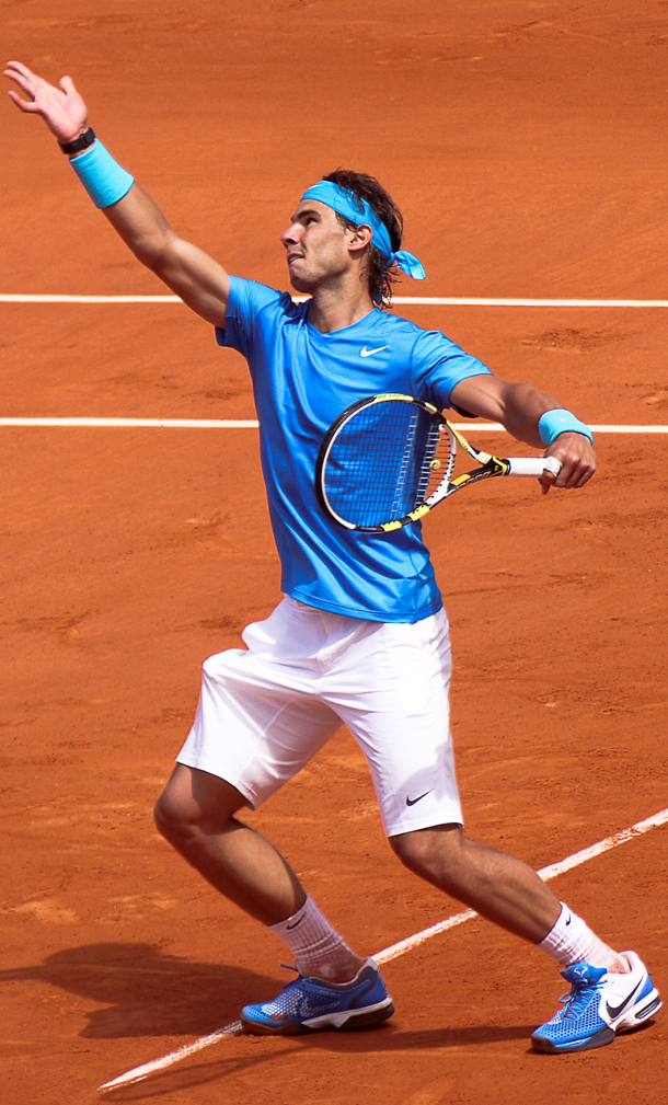 This file is originally uploaded by Good twins on wikimedia commons. This is the edited version of the photo and I was the one who edit it. No Copyright Infringement Intended